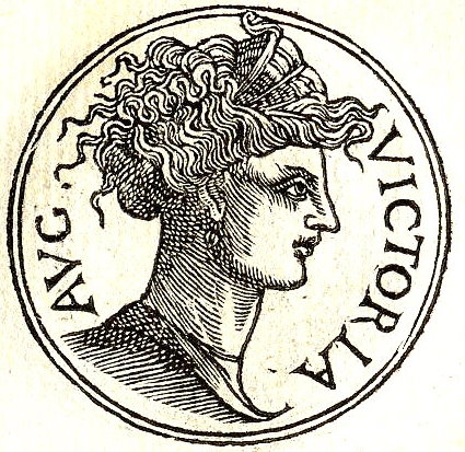 Victoria, also known as Vitruvia, was a usurper against Roman Emperor Aurelianus, according to Historia Augusta, which includes her into the list of the Thirty Tyrants.